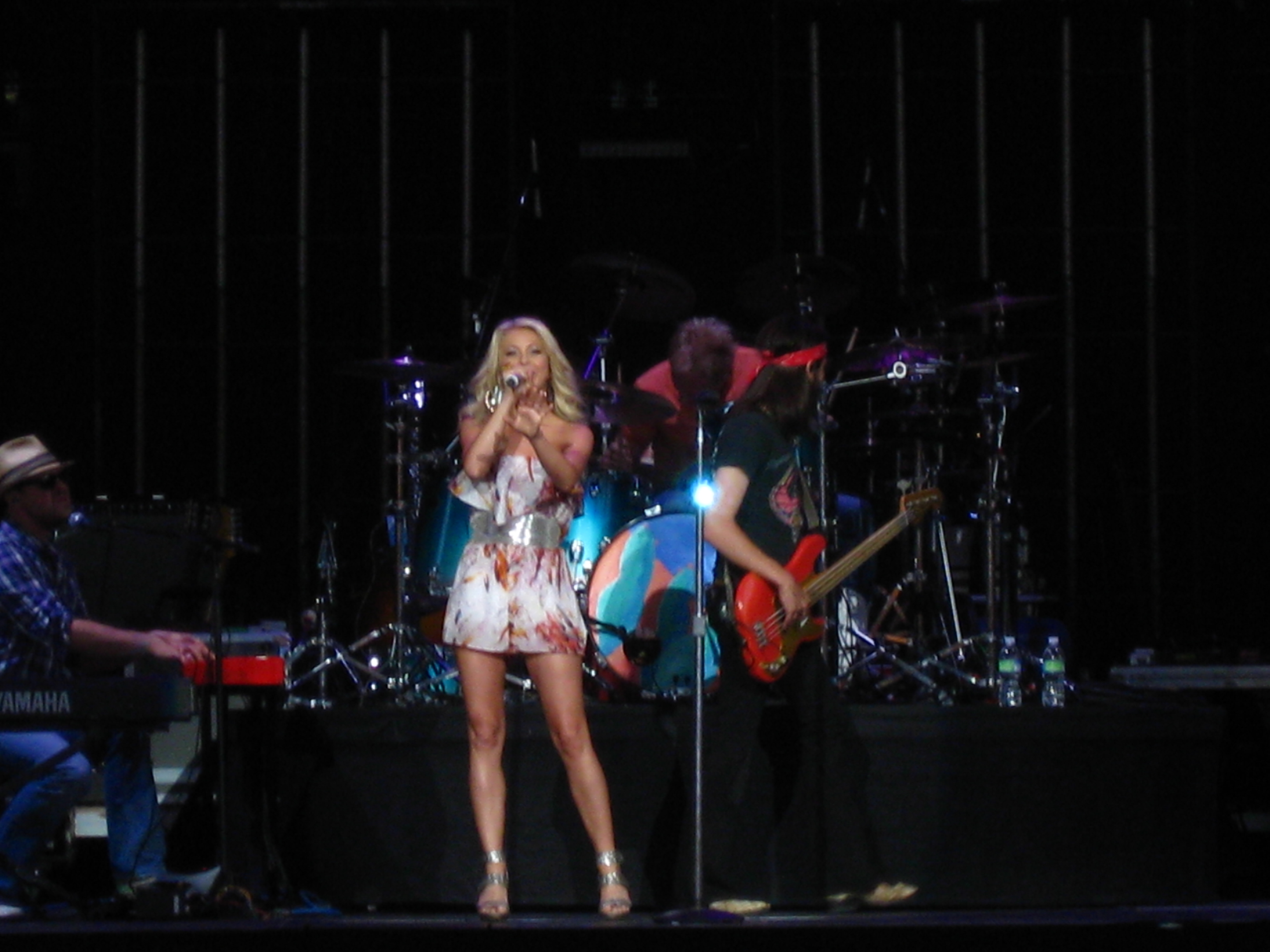 Julianne Hough performing at a George Strait Concert on June 13, 2009. Photographed with a Canon PowerShot SD1100 IS.